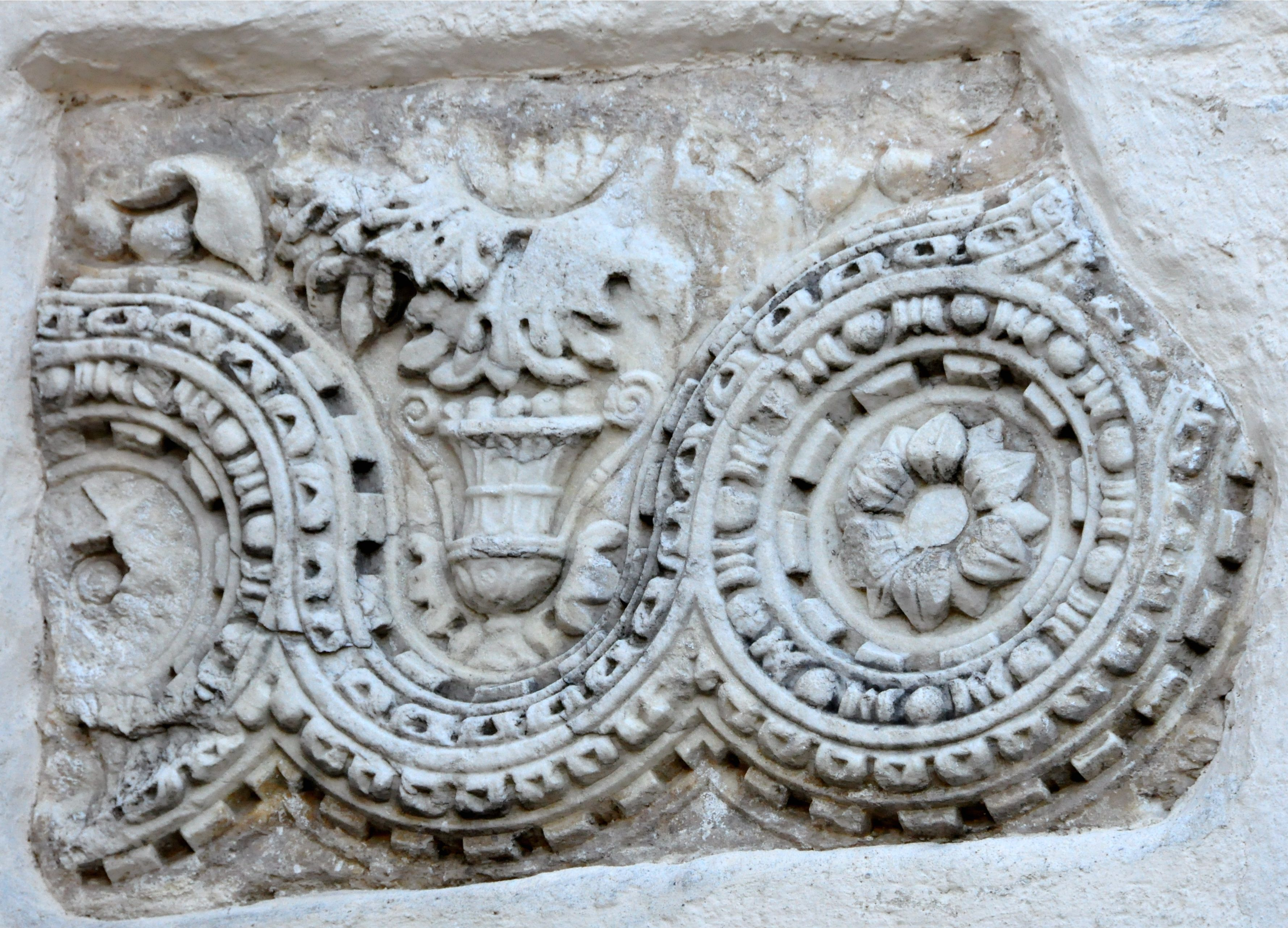 Ancient Roman stone fragment of a pan ceiling from a grave construction (CSIR II/5, 583) on the east wall of the parish church Saint Thomas in Sankt Thomas, market town Magdalensberg, district Klagenfurt Land, Carinthia, Austria, EU